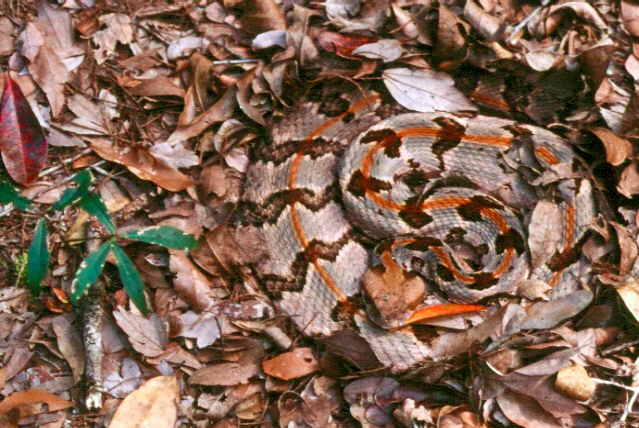 Timber Rattlesnake (Crotalus horridus).